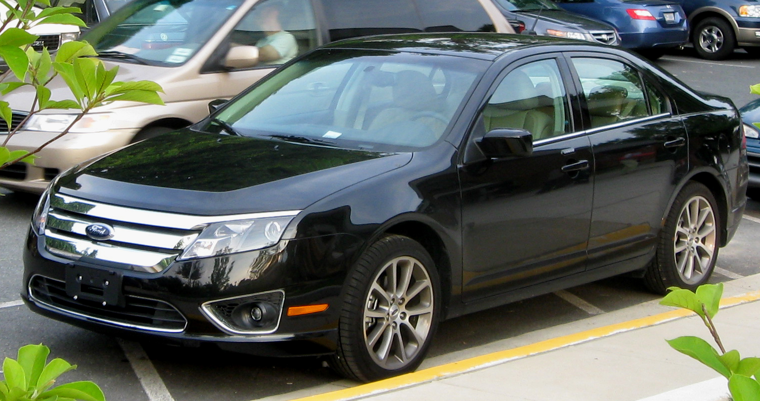 2010 Ford Fusion photographed in Washington, D.C., USA.